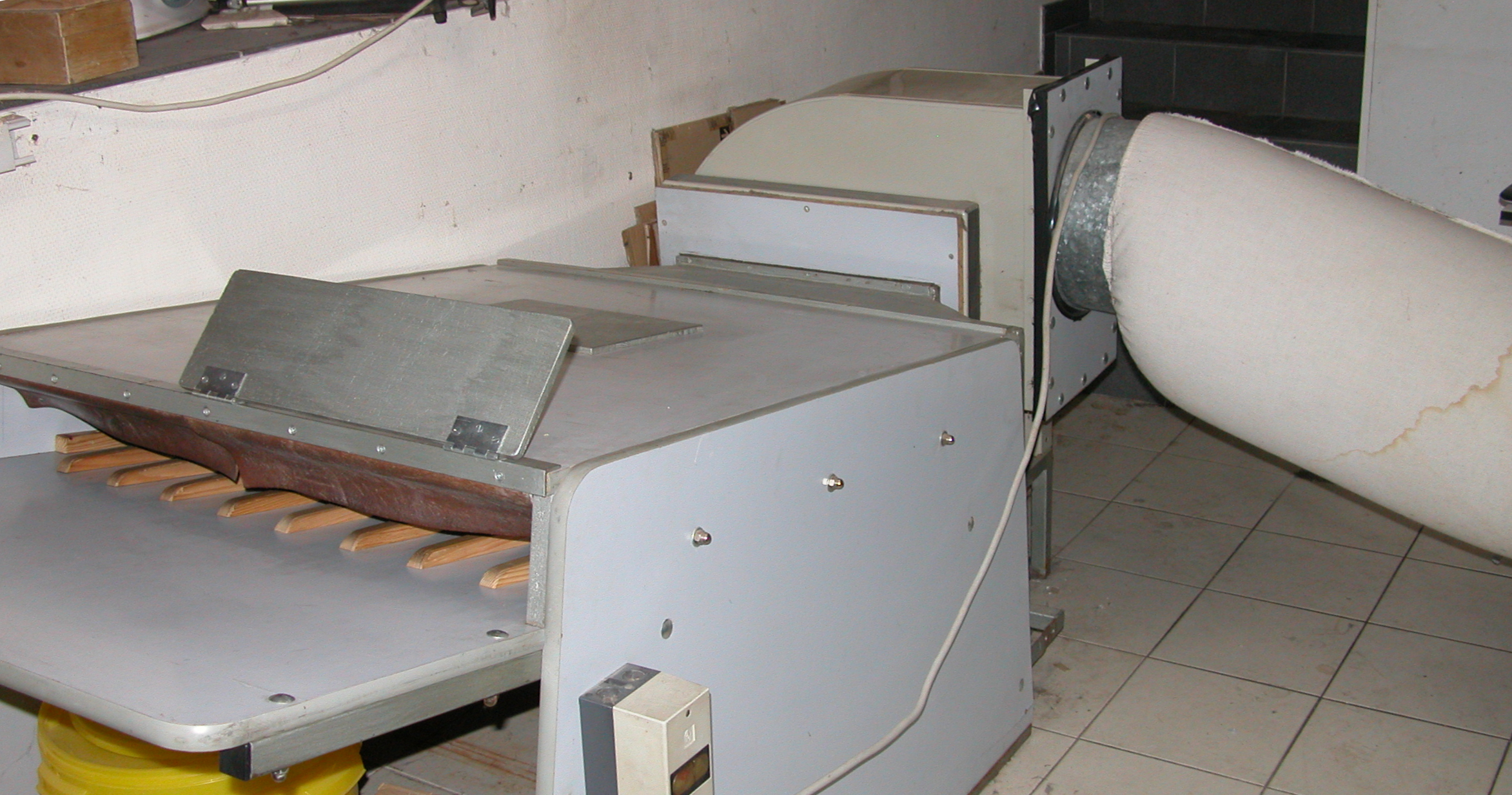 Fur beating machine, airstream beating.